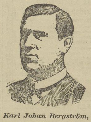 Engraving of the Swedish politician Karl Johan Bergström (1858-1937), by an anonymous artist. Published in the newspaper Göteborgs Aftonblad 1900-09-01 (204A), p. 2.